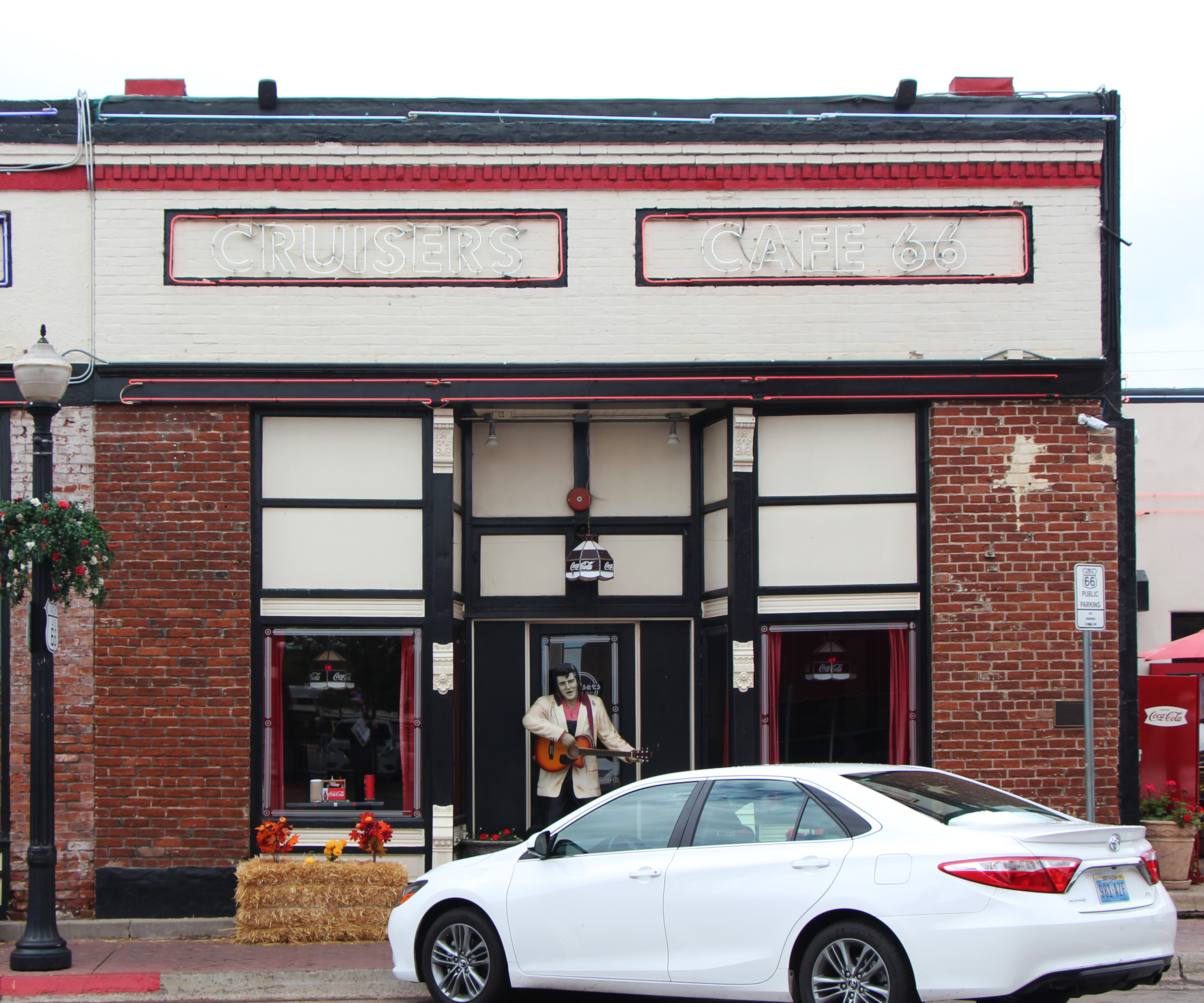 The Postal Telegraph Co., 239 W. Route 66, Williams, AZ